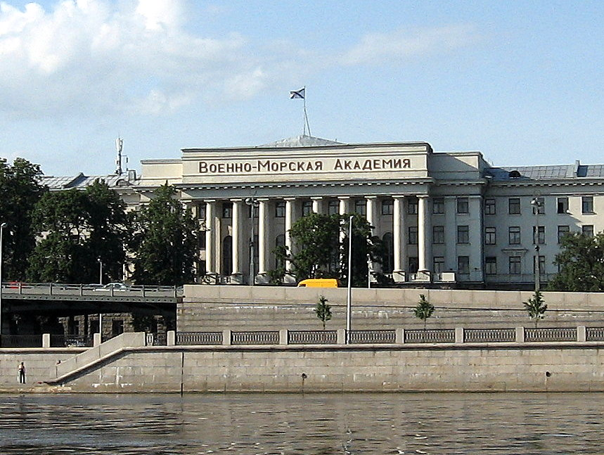 Kuznetsov Naval Academy in St.Petersburg, Russia